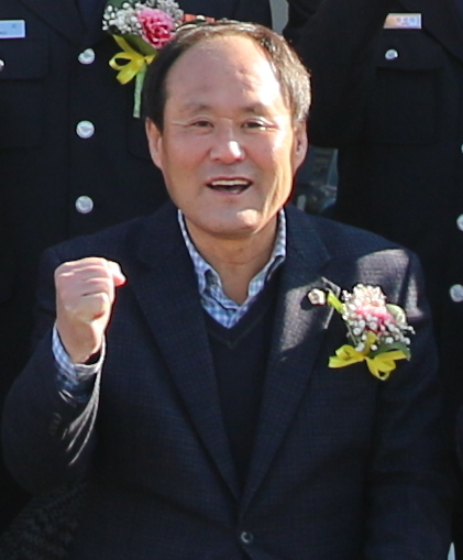 횡성소방서 공근119안전센터 개청식